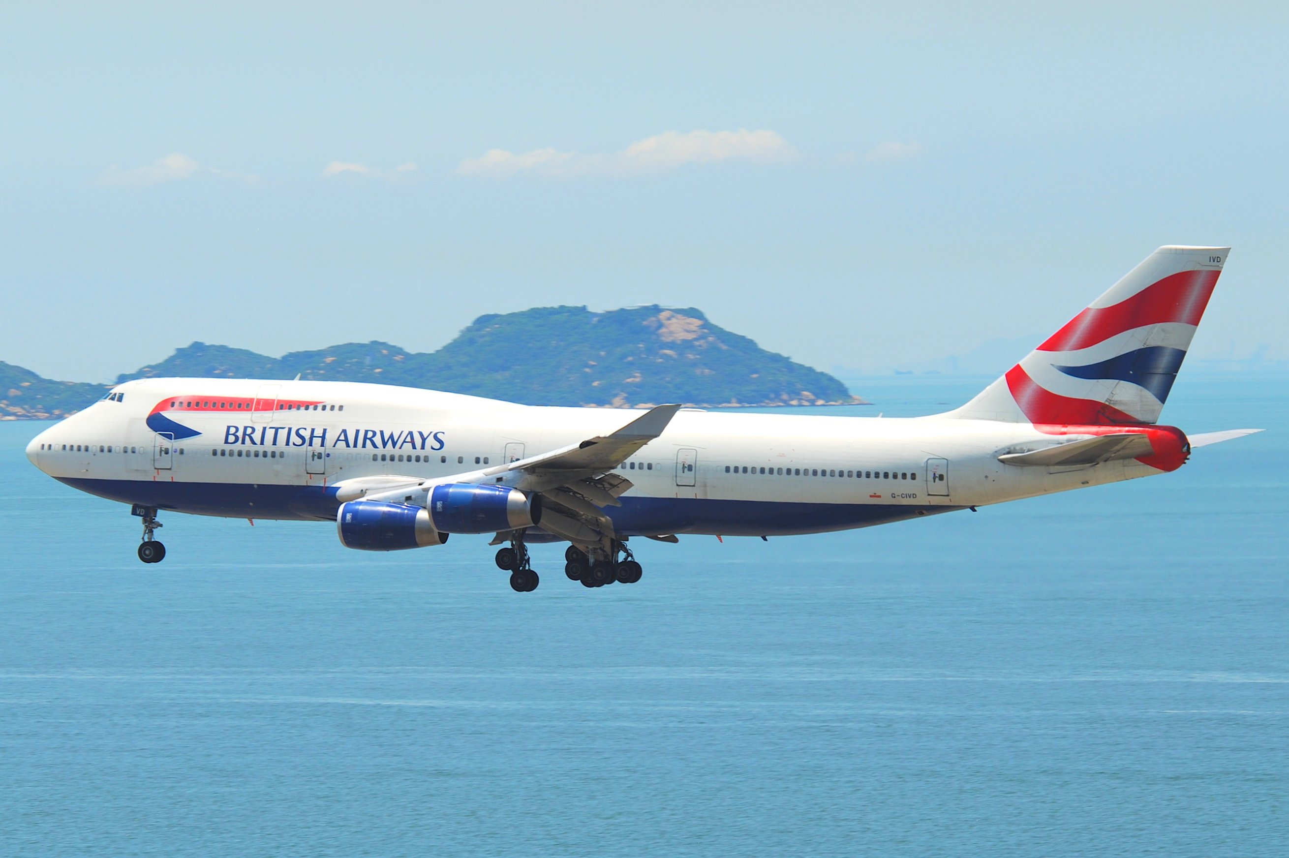 British Airways Boeing 747-400; G-CIVD@HKG;04.08.2011/615pb